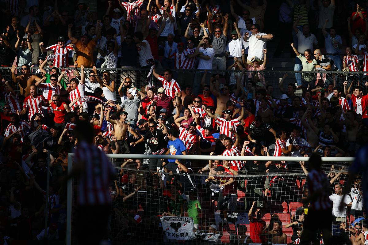 AUGUST 30, 2009 - Football : Athletic fans waves during the La Liga match between Athletic Club and RCD Espanyol at the San Mames on August 30, 2009 in Bilbao, Spain. (Photo by Tsutomu Takasu)